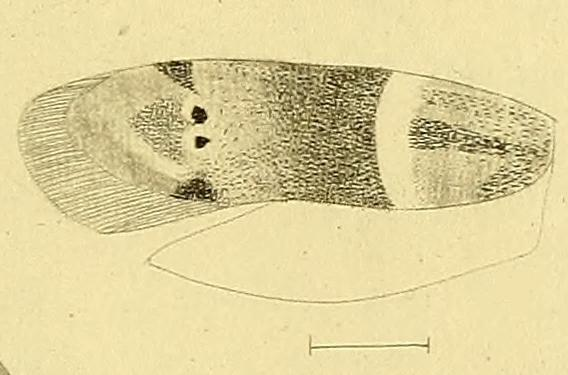 Hypatopa segnella